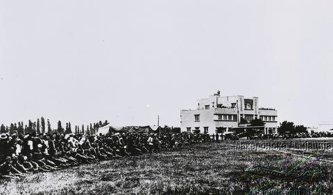 Airfield near the current location of the airport Skopje, Macedonia